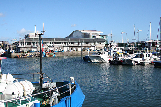 Plymouth: towards the National Marine Aquarium Looking east-south-east across Sutton Harbour